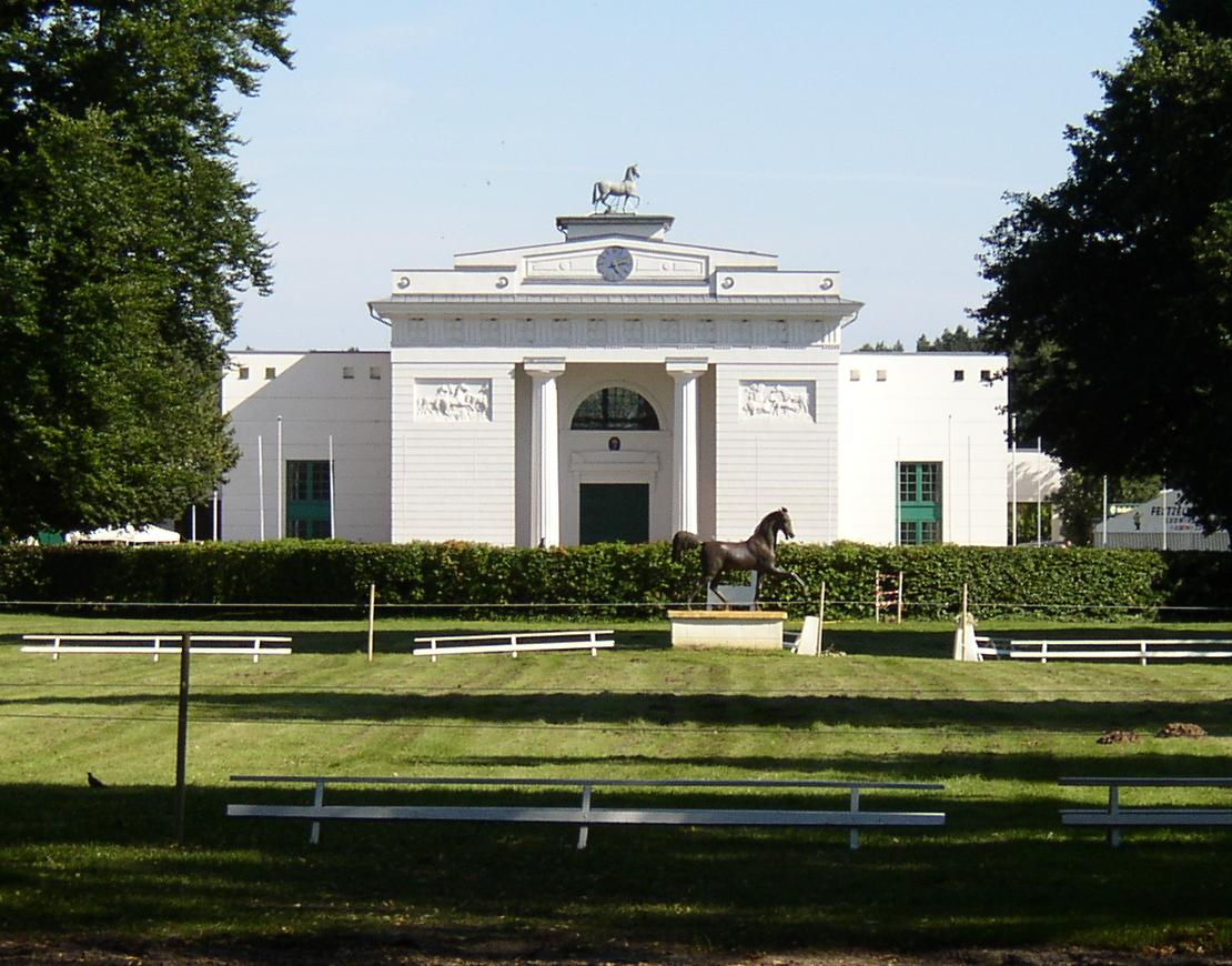 Riding hall in Redefin in Mecklenburg-Western Pomerania, Germany